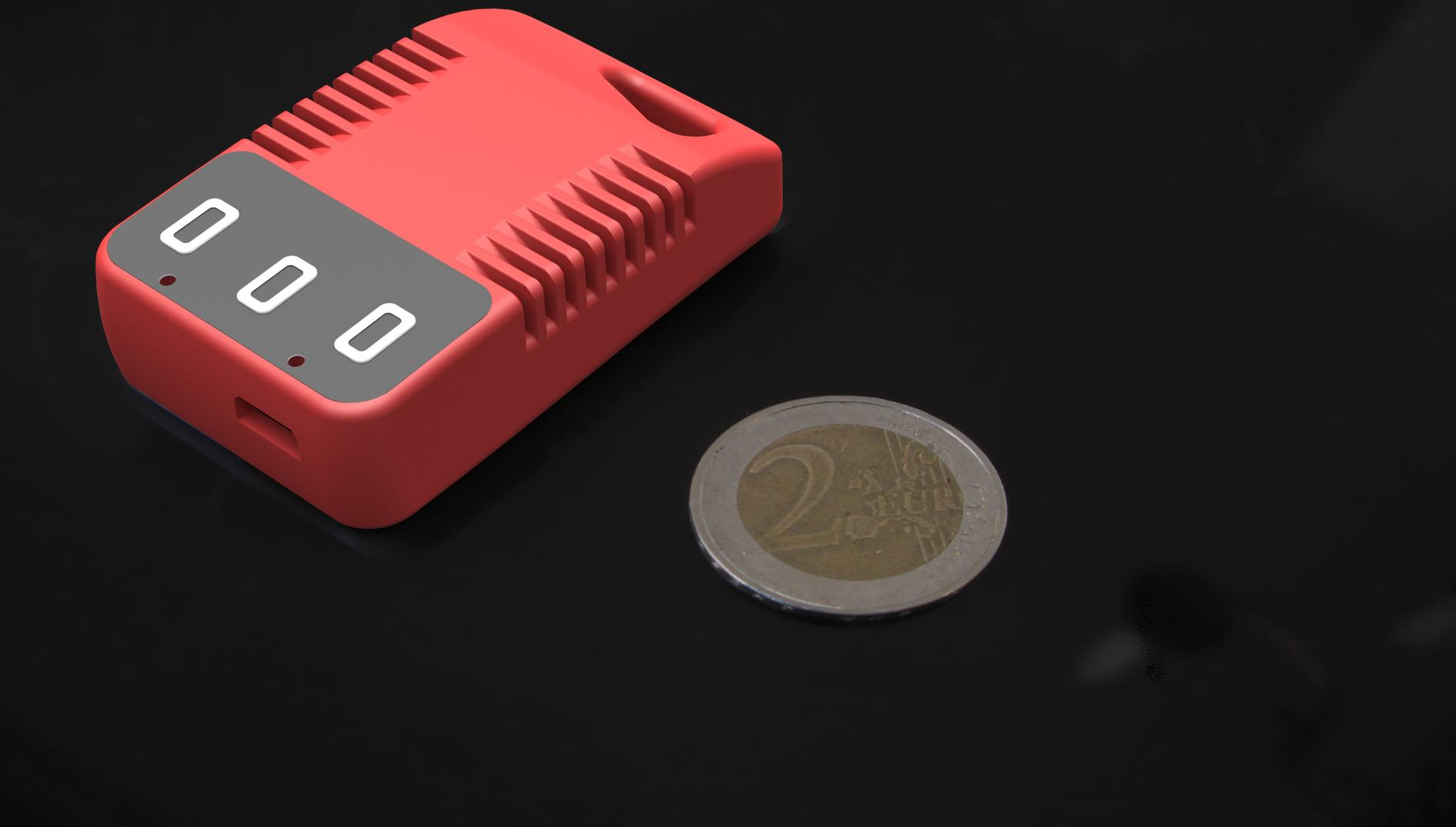 TraceME